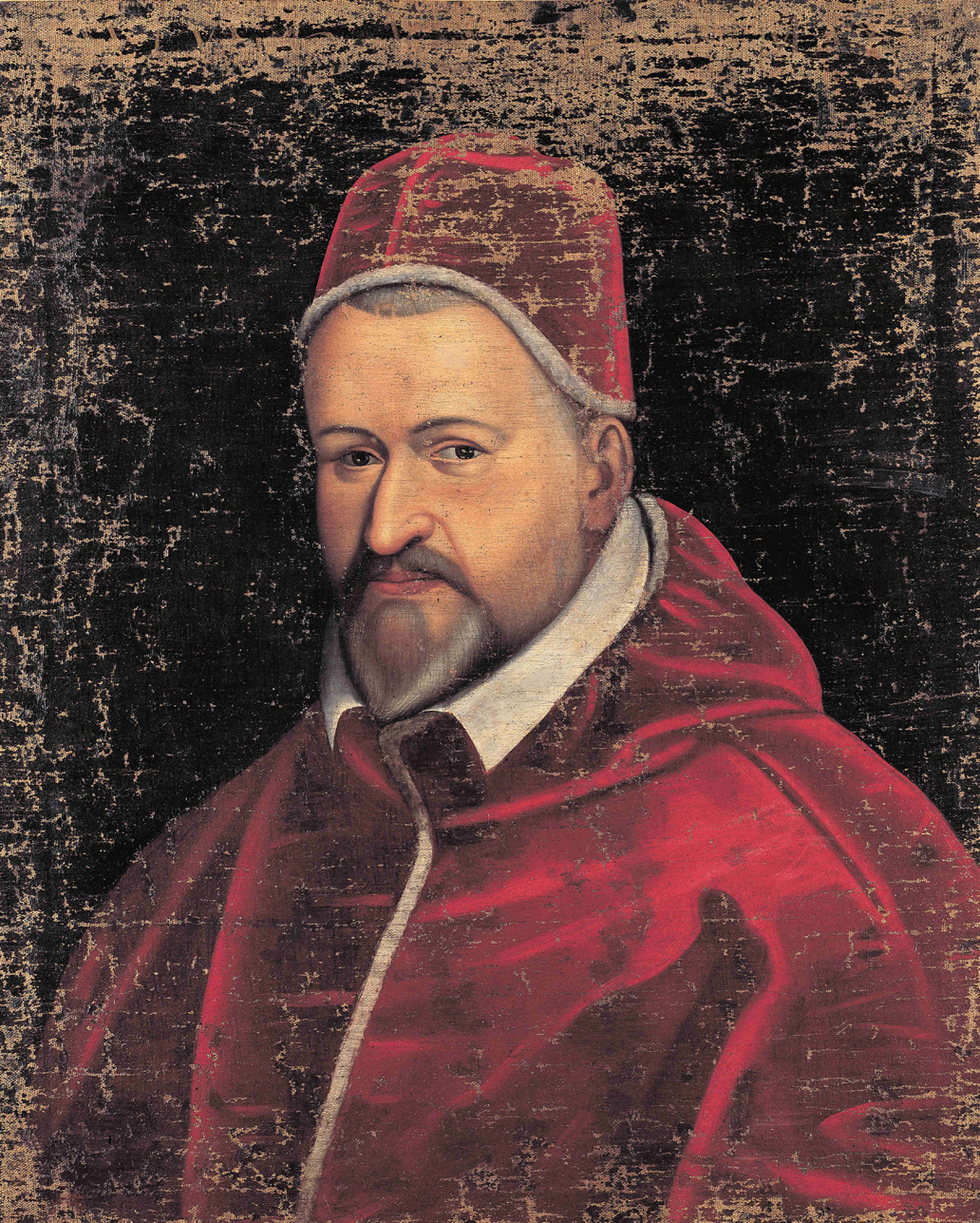 Pope Paul V (1552-1621)